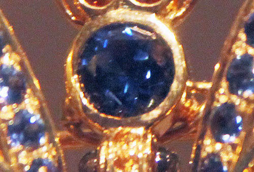 Detail of the Conchita Sapphire Butterfly (also known as "Conchita," the "Sapphire Butterfly Brooch", and the "Montana Butterfly Brooch"), showing the large blue Yogo sapphire in the head of the 14k gold setting. The jewelry piece was commissioned in February 2006 by Robert Kane of Fine Gems International (Helena, Montana, United States), using gems in his firm's collection. Kane hired jewelrey designer Paula Crevoshay to craft an 18 karat gold setting for the gems. Crevoshay crafted the butterfly setting, and called the finished piece "Conchita" in honor of her mother. Kane and Crevoshay donated the piece to the Smithsonian Institution in February 2007. See: "Conchita Sapphire Butterfly G10539." GeoGallery. Department of Mineral Sciences. National Museum of Natural History. Smithsonian Institution. 2012. Accessed 2012-04-22; "Crevoshay, Kane Present Sapphire Treasure to Smithsonian." Press release. Fine Gems International. May 7, 2007. Accessed 2012-04-22.